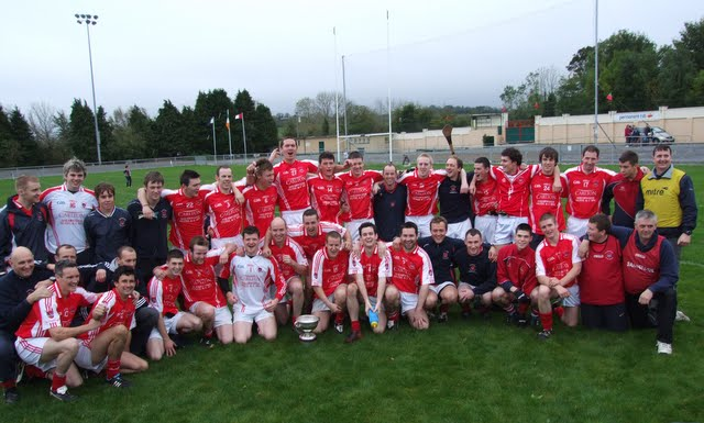 Team Photo